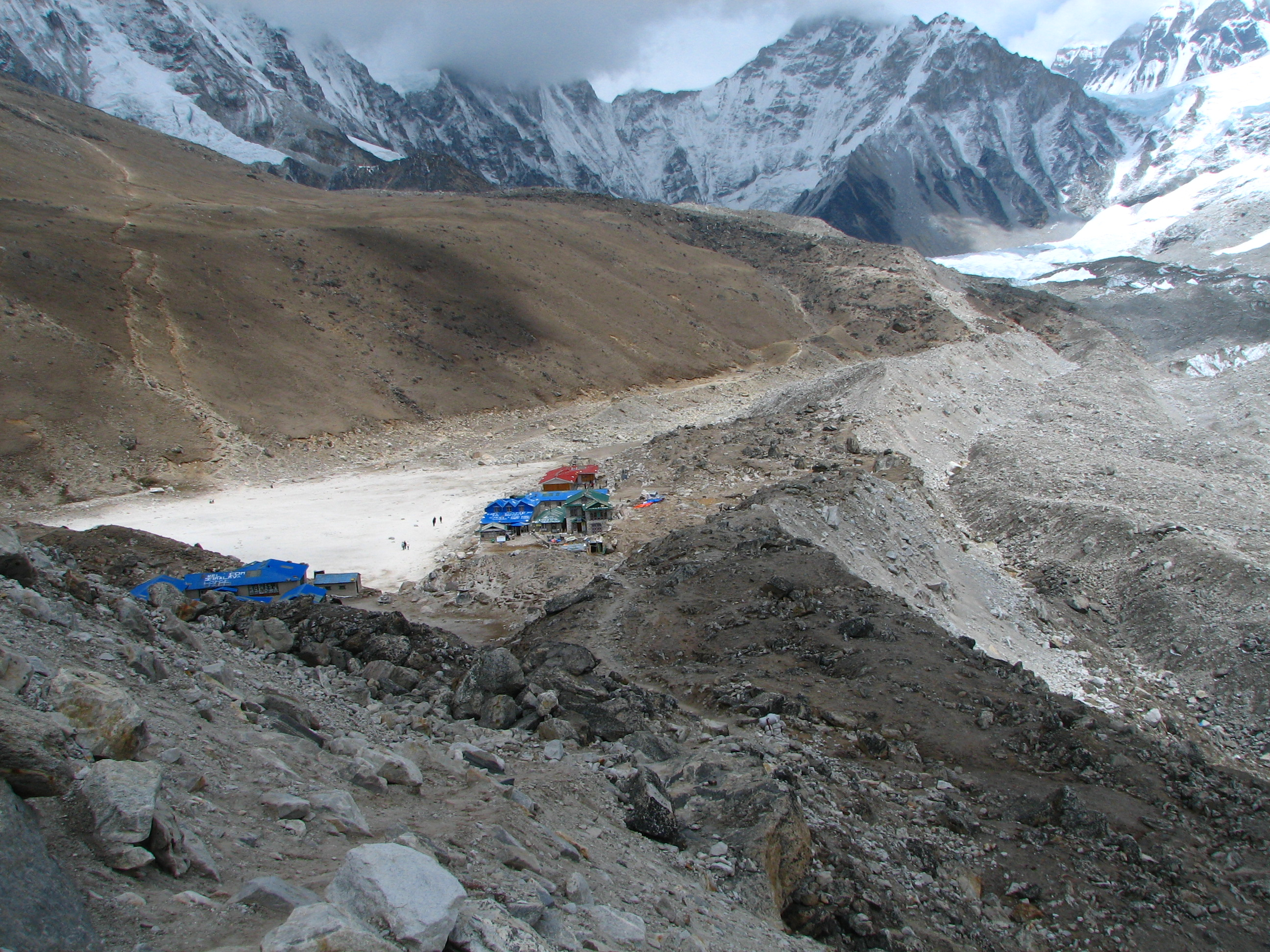 The tiny settlement of Gorak Shep at 5140m, the highest you'll sleep on the EBC trek route. The altitude definitely starts to affect some here, but how much it affects you depends a lot on how quickly you've come up and your personal susceptibility.